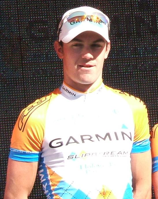 Named cyclist at the en:2009 Tour Down Under team presentation